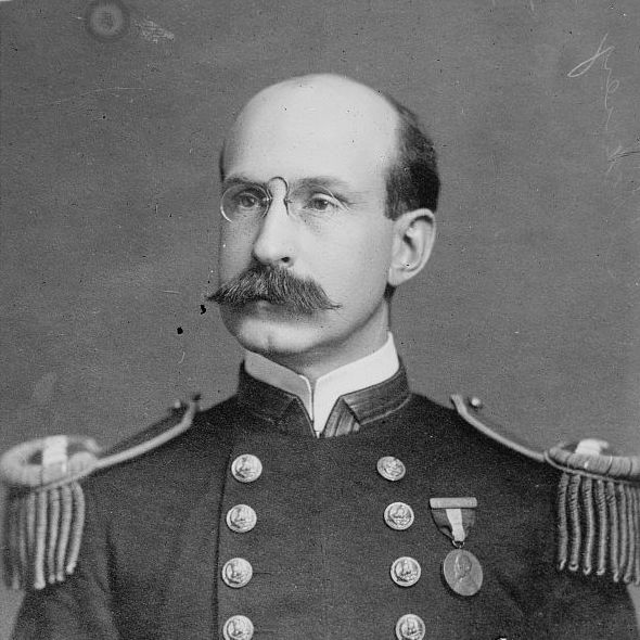 Bain News Service,, publisher. Com. H. O. Stickney [between ca. 1910 and ca. 1915] 1 negative : glass ; 5 x 7 in. or smaller. Notes: Title from unverified data provided by the Bain News Service on the negatives or caption cards. Forms part of: George Grantham Bain Collection (Library of Congress). Format: Glass negatives. Repository: Library of Congress, Prints and Photographs Division, Washington, D.C. 20540 USA, General information about the Bain Collection is available at Persistent URL: Call Number: LC-B2- 3030-12